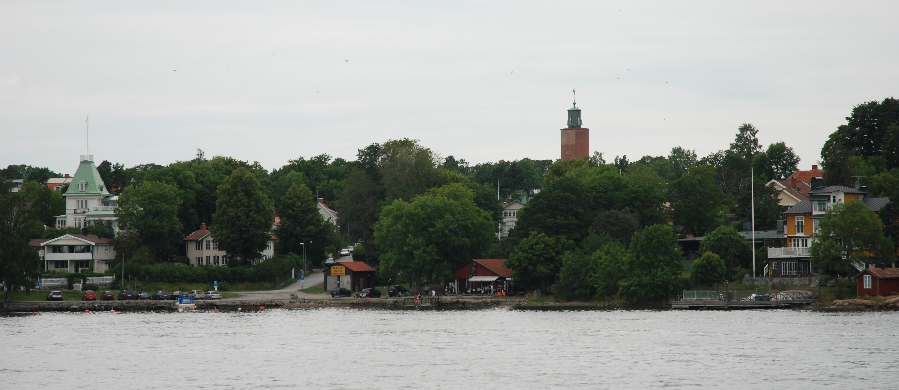 Ekuddsparken in Vaxholm, seen from the sea